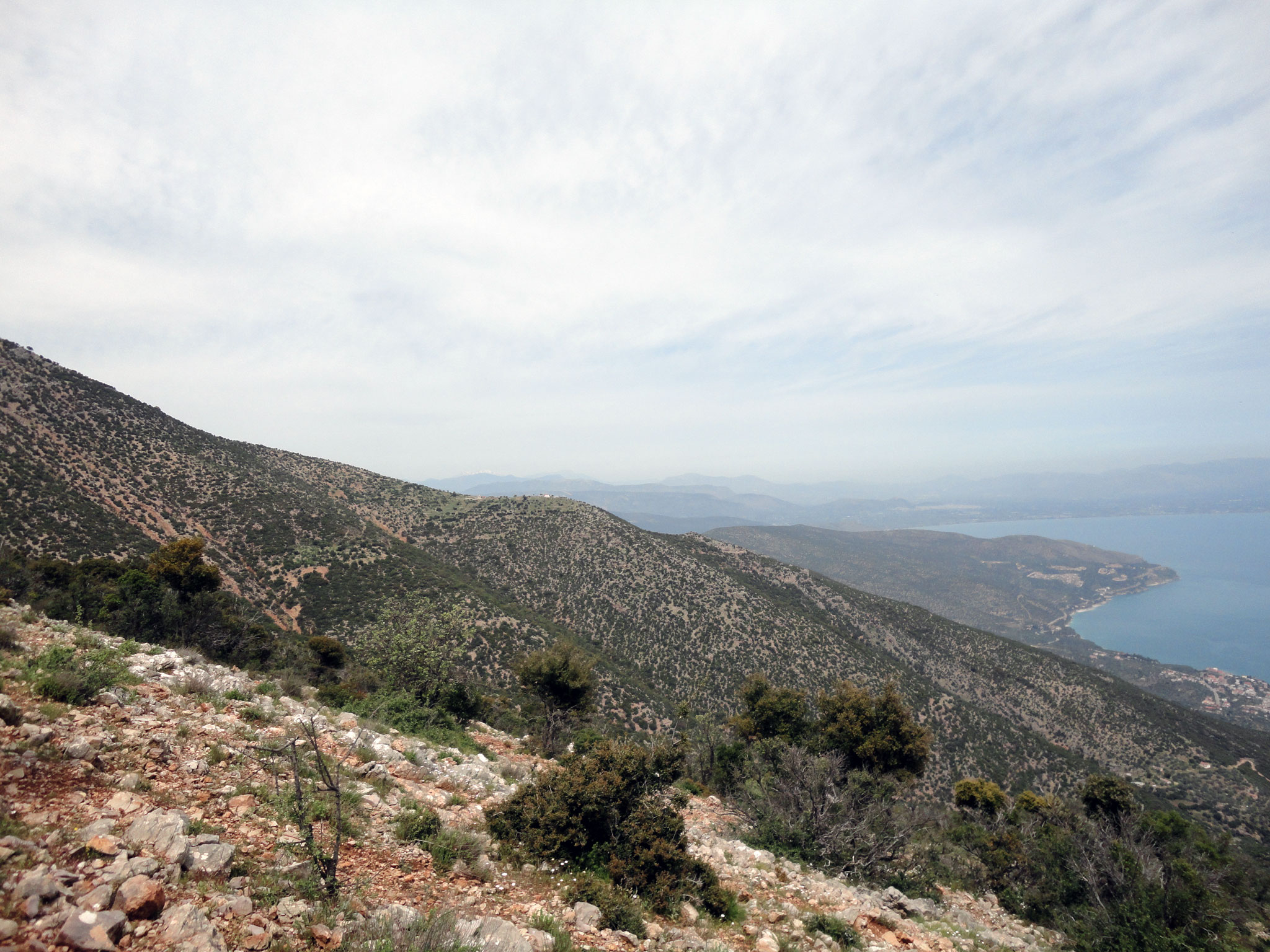 View from mountain Zavitsa of Arcadia looking towards Northeast. The Argolic Gulf is visible on the background, Xiropigado on the right.